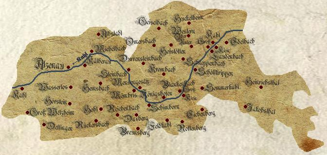 Management area of the bavarian Bezirksamt Alzenau in 1875. Traced from the Topographischer Atlas vom Königreiche Baiern diesseits des Rhein Blatt: 17. Aschaffenburg and Blatt: 10 Orb